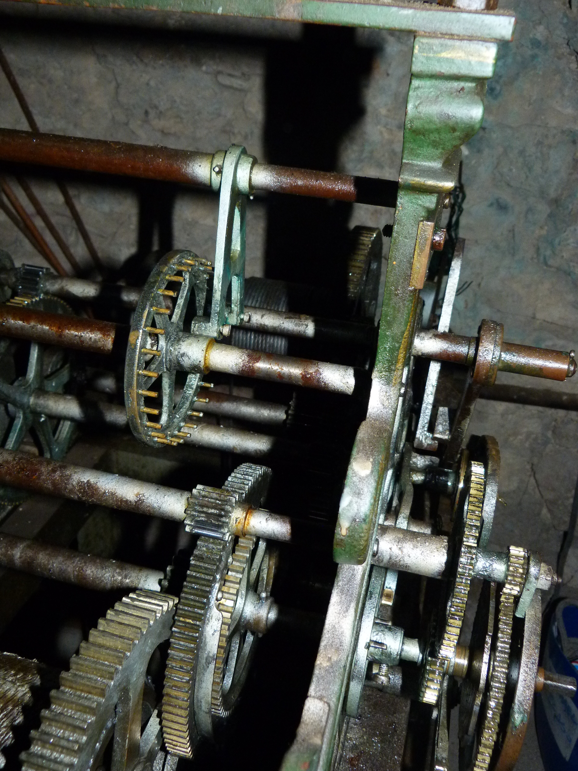 Pin wheel escapement of an Italian tower clock (used only for chiming bells)